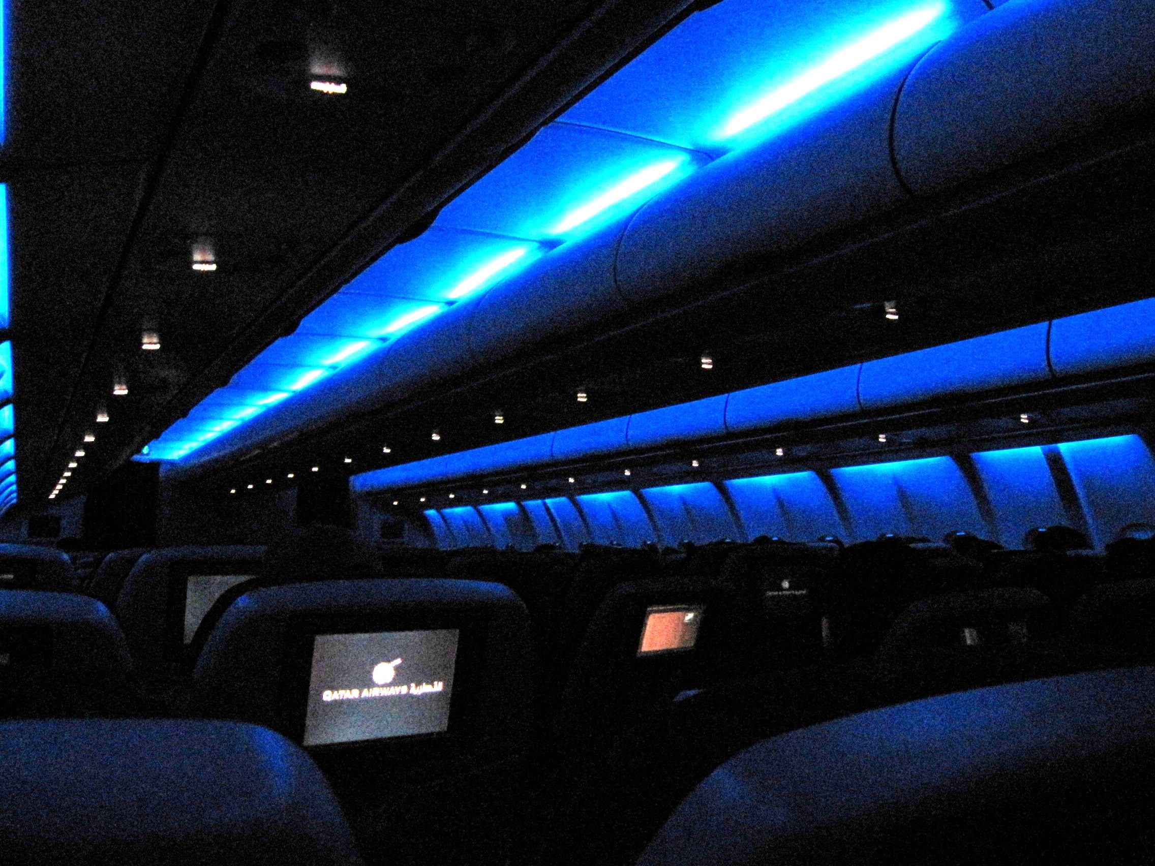 A view inside the cabinet of Airbus A330 for Qatar Airways.